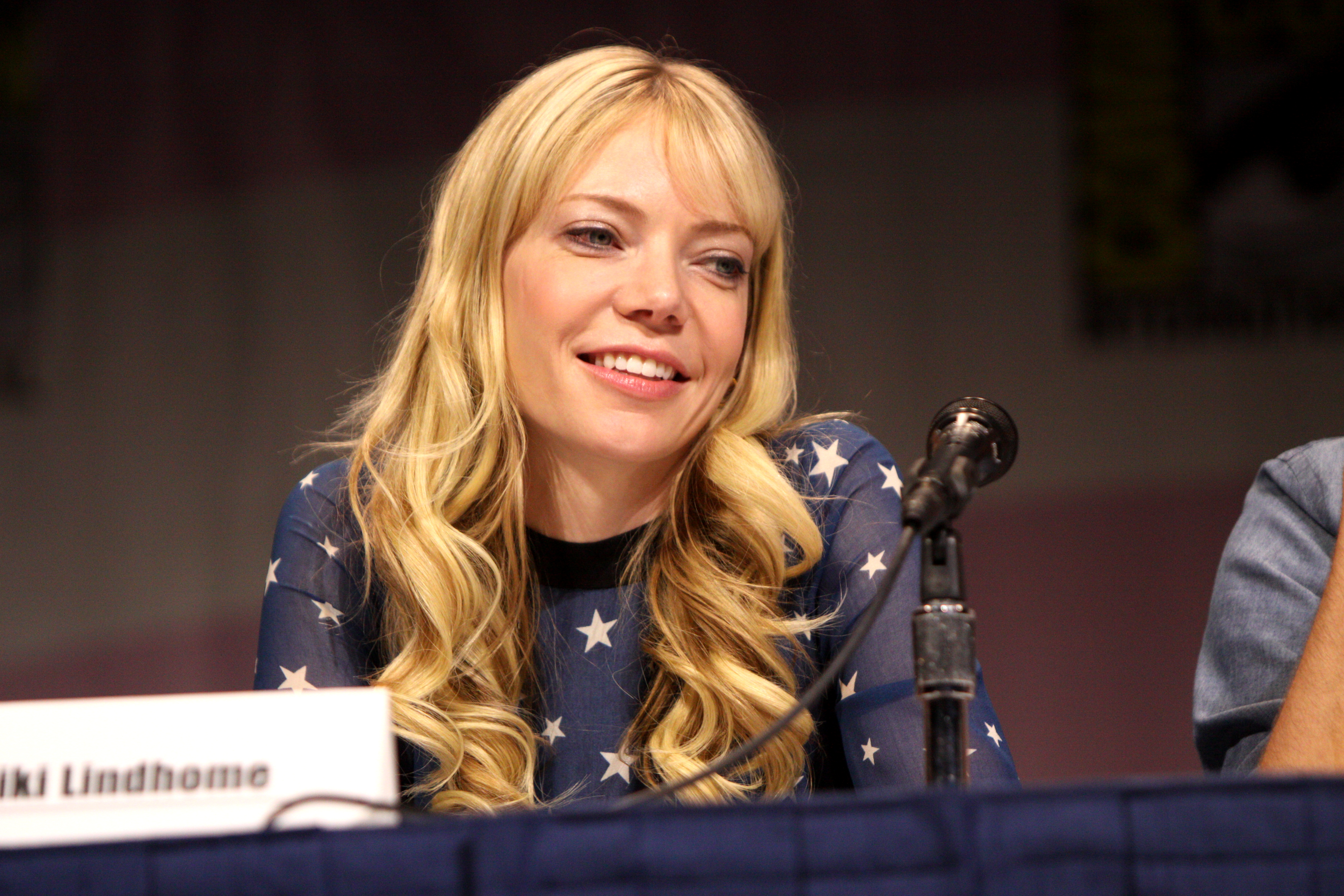 Riki Lindhome at the 2013 WonderCon at the Anaheim Convention Center.